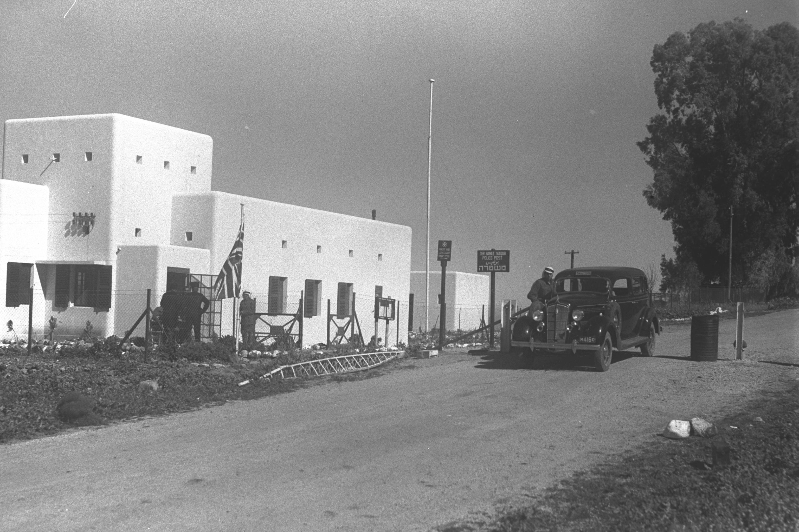 A SYRIAN POLICE BORDER POST NEAR THE "BNOT YAACOV" BRIDGE. עמדת גבול סורית של המשטרה הבריטית, ליד גשר בנות יעקב.